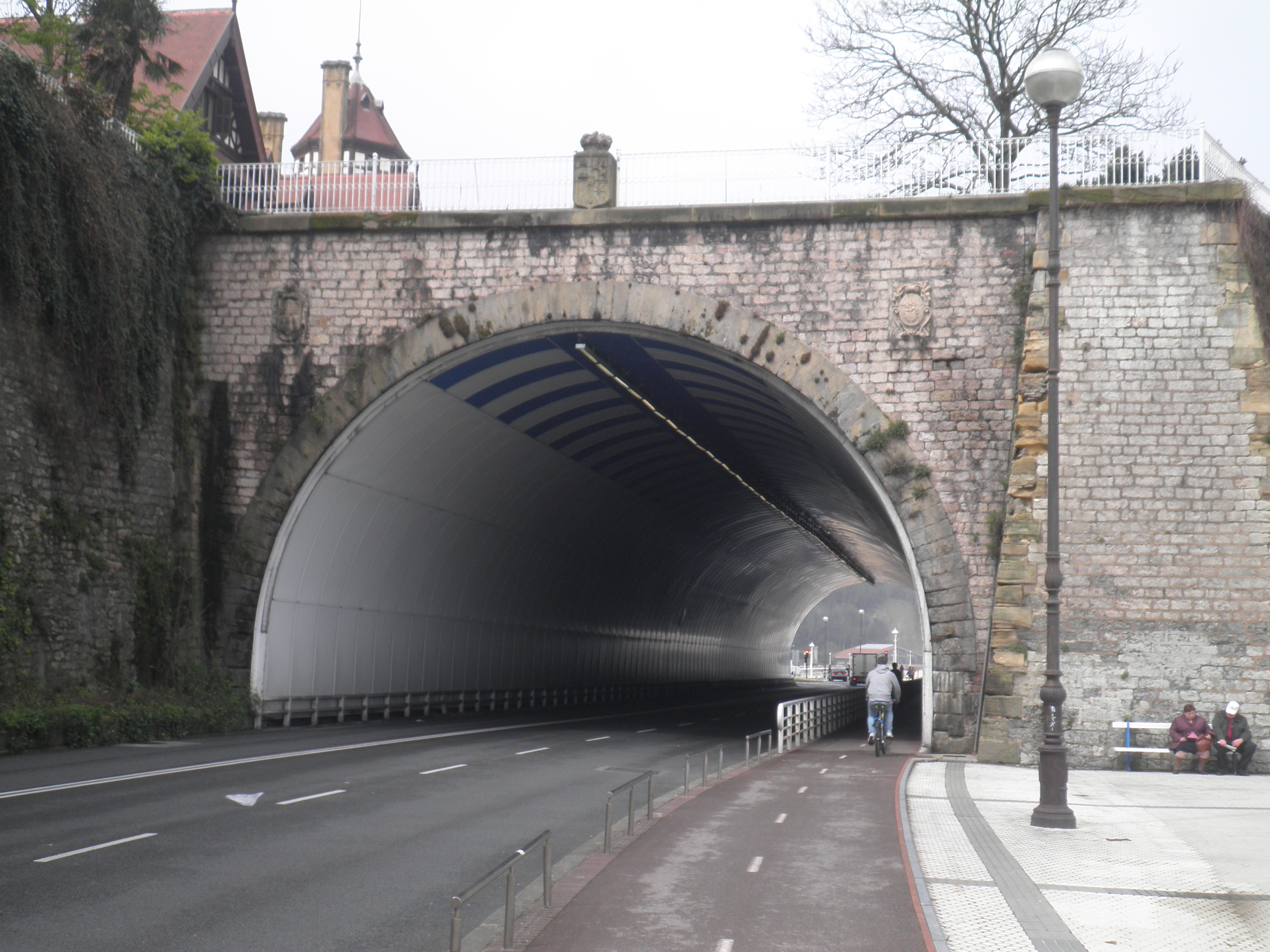 Antigua tunnel in Donostia.